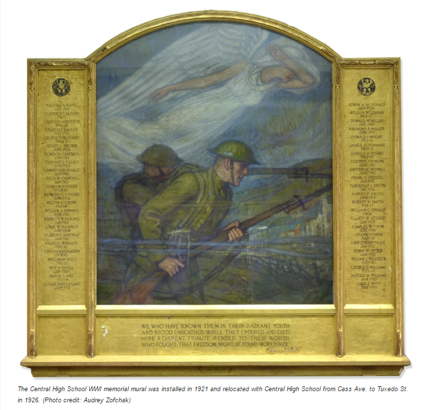 The Central High School WWI memorial mural commissioned by Central High School June class of 1918 and the alumni association. Installed in 1921 and relocated with Central High School from Cass Avenue to Tuxedo Street in 1926. (Photo credit: Audrey Zofchak)